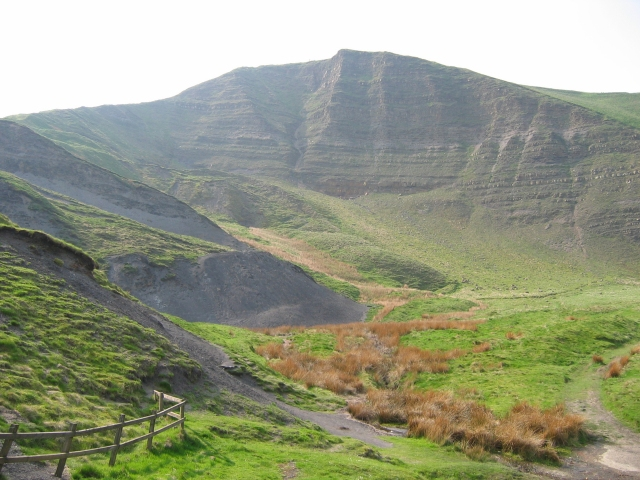 Mam Tor — with hummocky landslip area in the foreground.